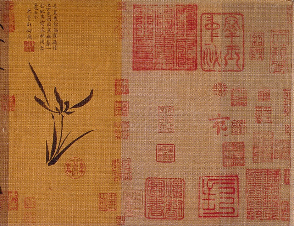 Part of the front end panel to the 'Admonitions Scroll' attributed to Gu Kaizhi, showing a drawing of an orchid and accompanying inscription by the Qianlong Emperor (r. 1735-1796)